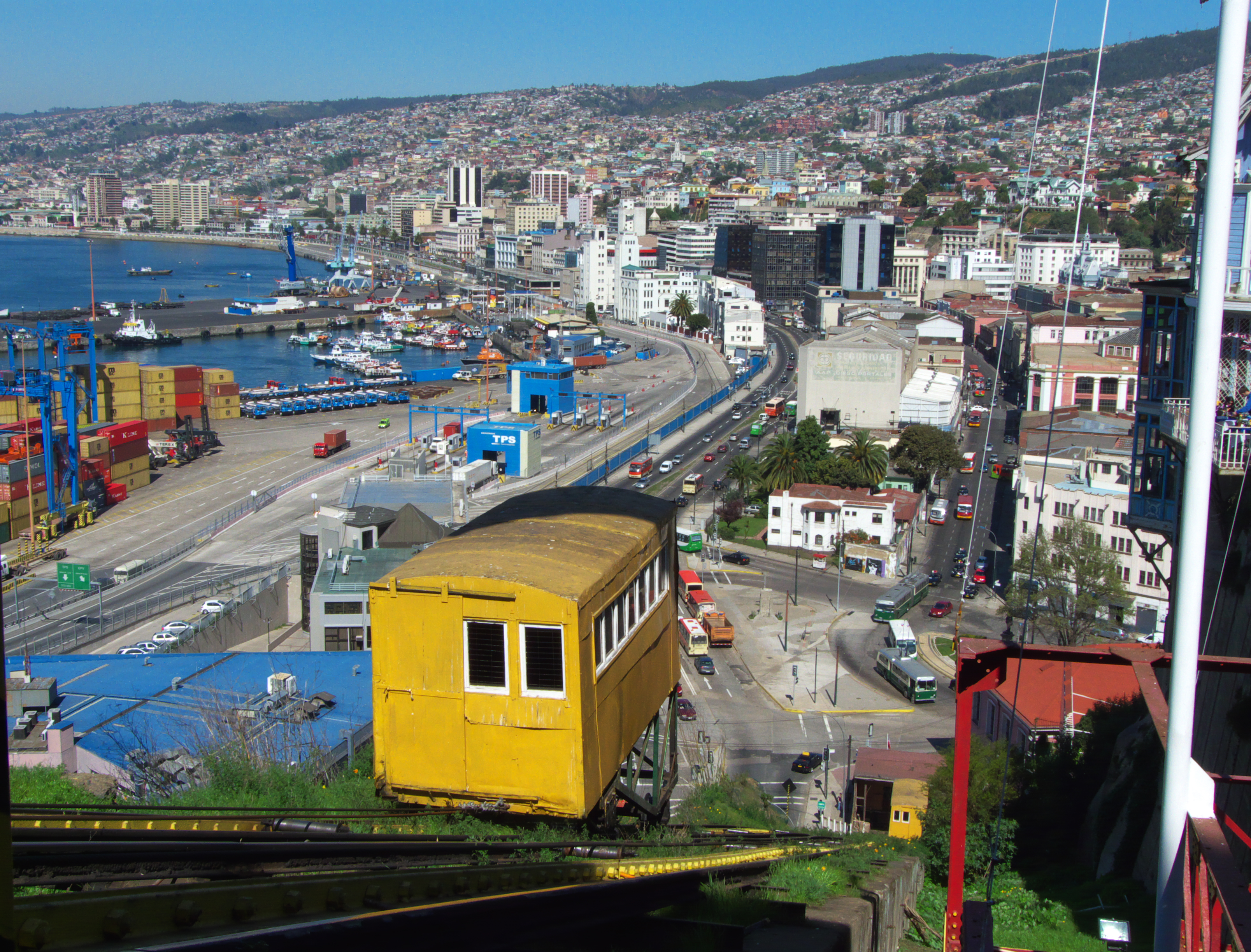 View of central Valparaíso, Chile, from the top of the Artillería funicular (incline) (Ascensor Artillería). At the bottom of the funicular are two trolleybuses at the Aduana terminus of the Valparaíso trolleybus system. The city's remaining funiculars and its trolleybuses have both been declared National Historic Monuments.